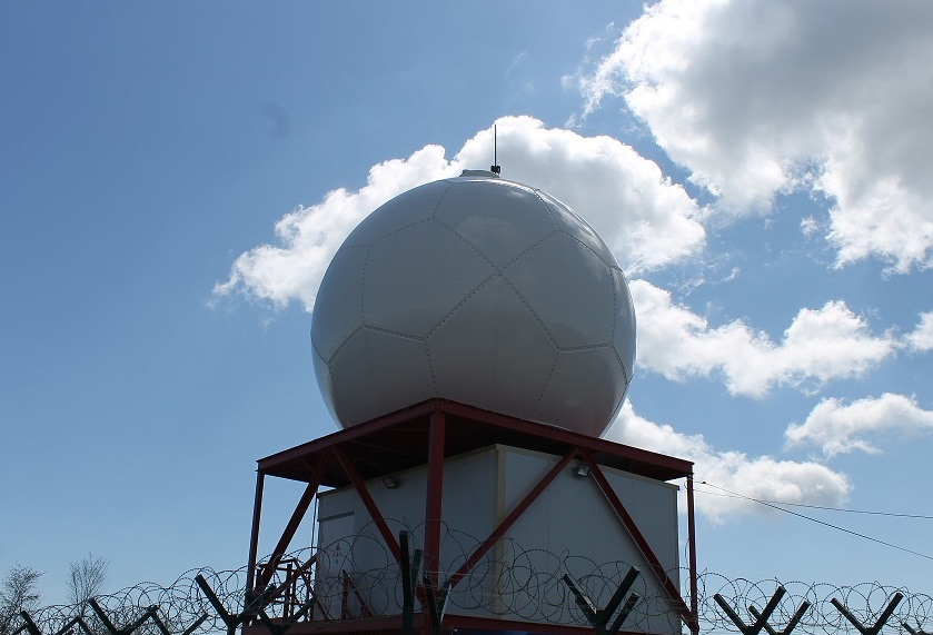 anti hail system radar - georgia